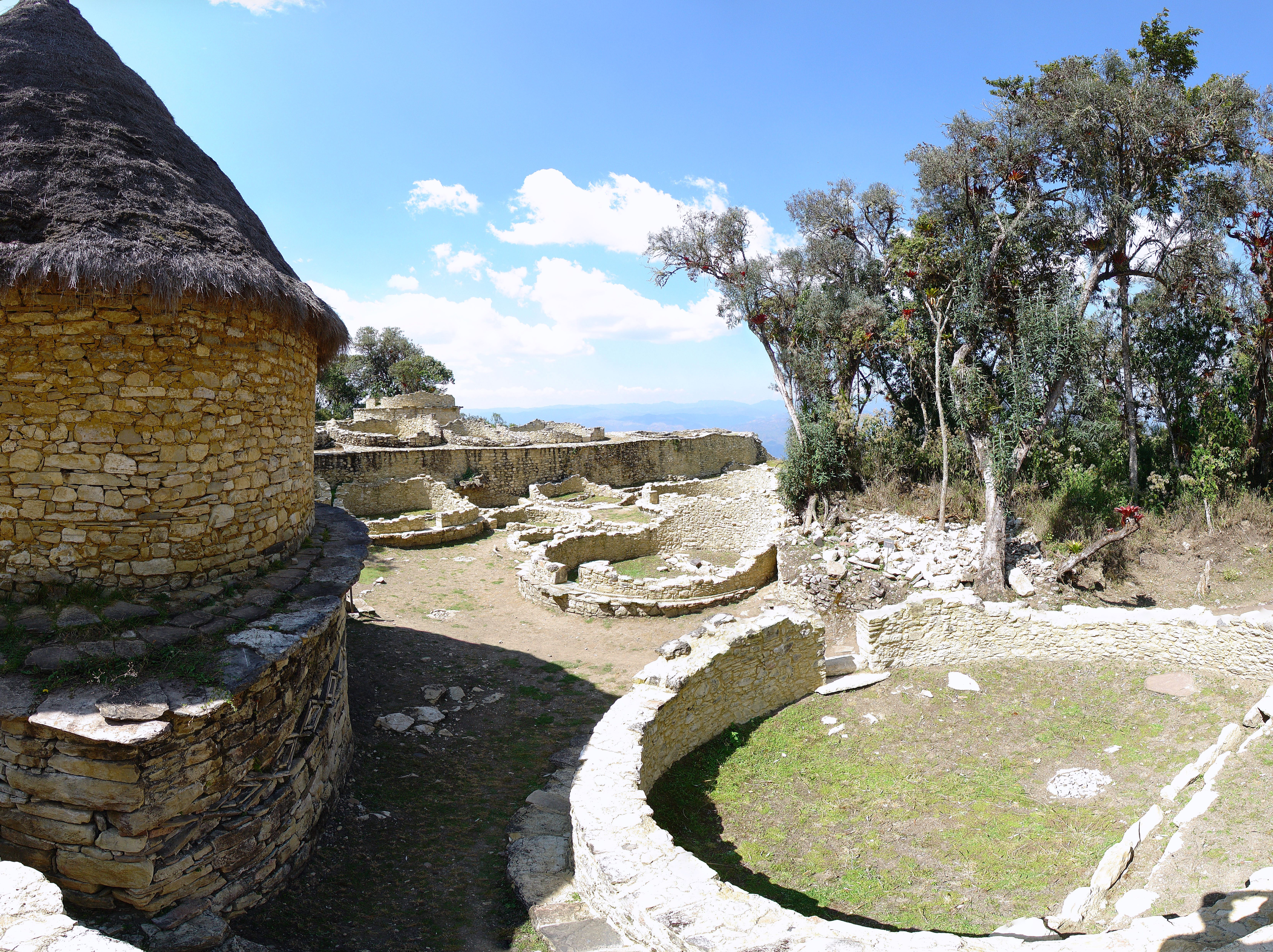 Ruins on the Kuelap forteress